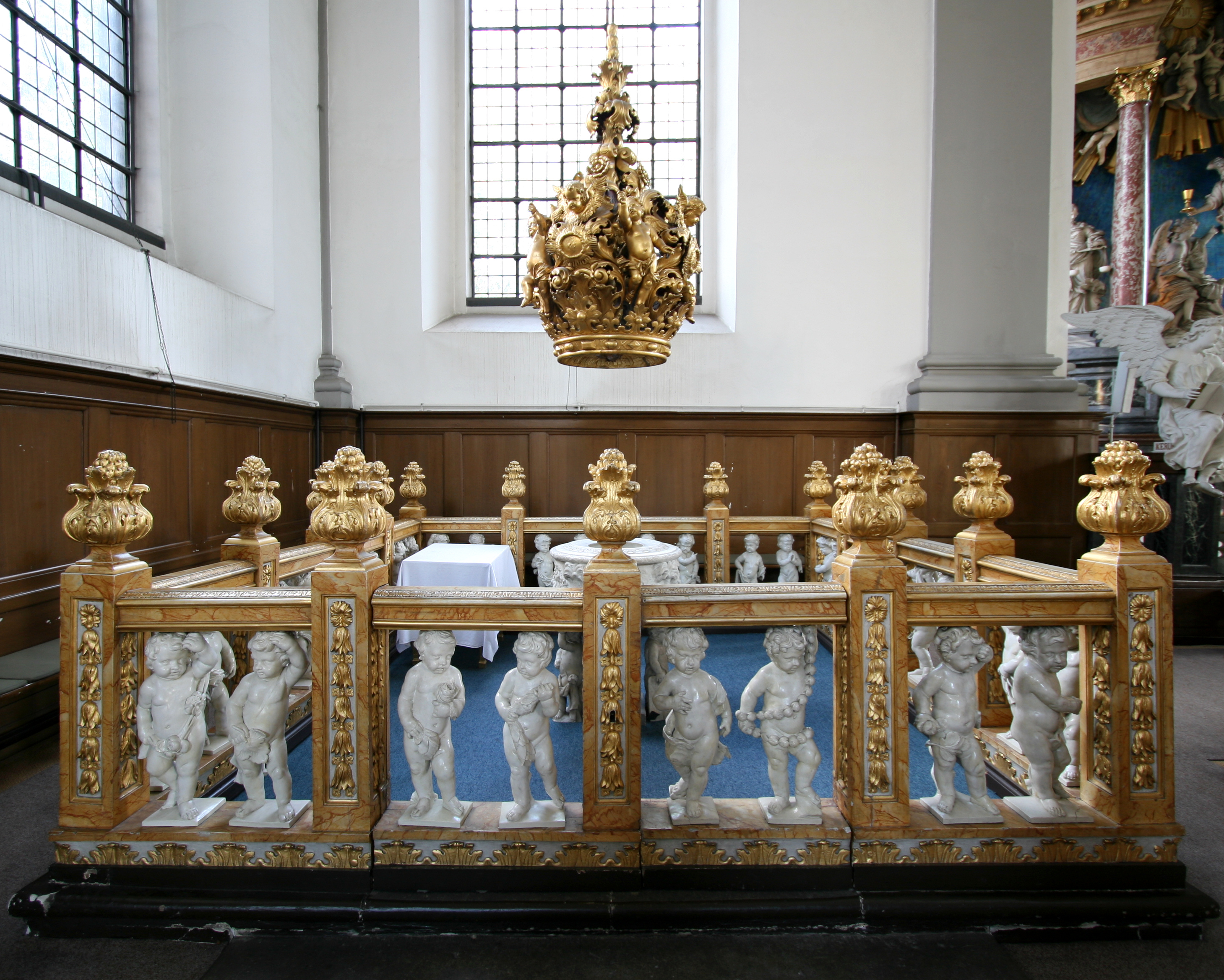 Vor Frelser Kirke (Church of Our Saviour), Copenhagen, Denmark. Baptismal font enclosure